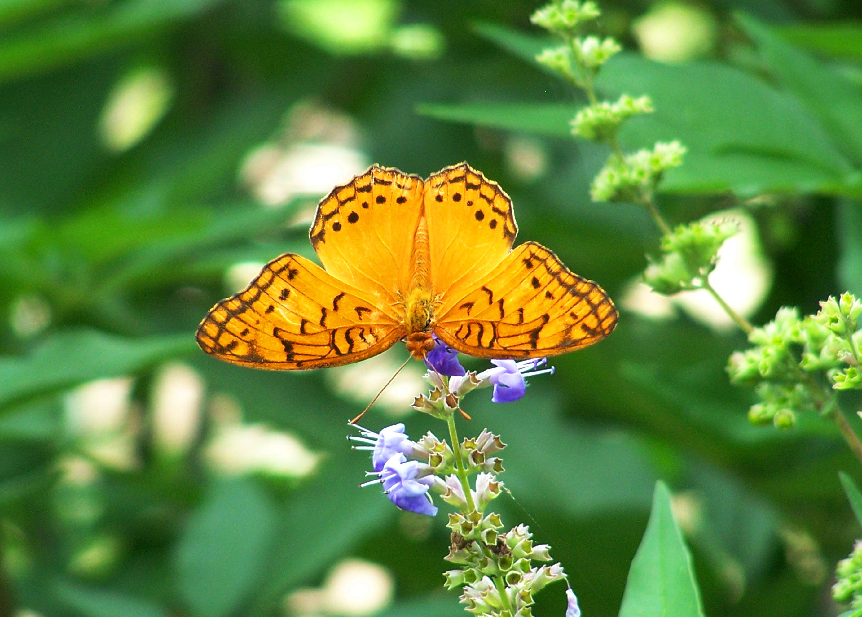 Euptoieta hegesia hegesia-Mexican Fritillary butterfly,Nymphalidae family, Floral Colour Garden, QEII Botanical Park - Grand Cayman Island